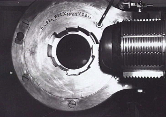 Photograph of breech of 9.2 inch Mk X gun at Fort Banks, NSW, Australia.